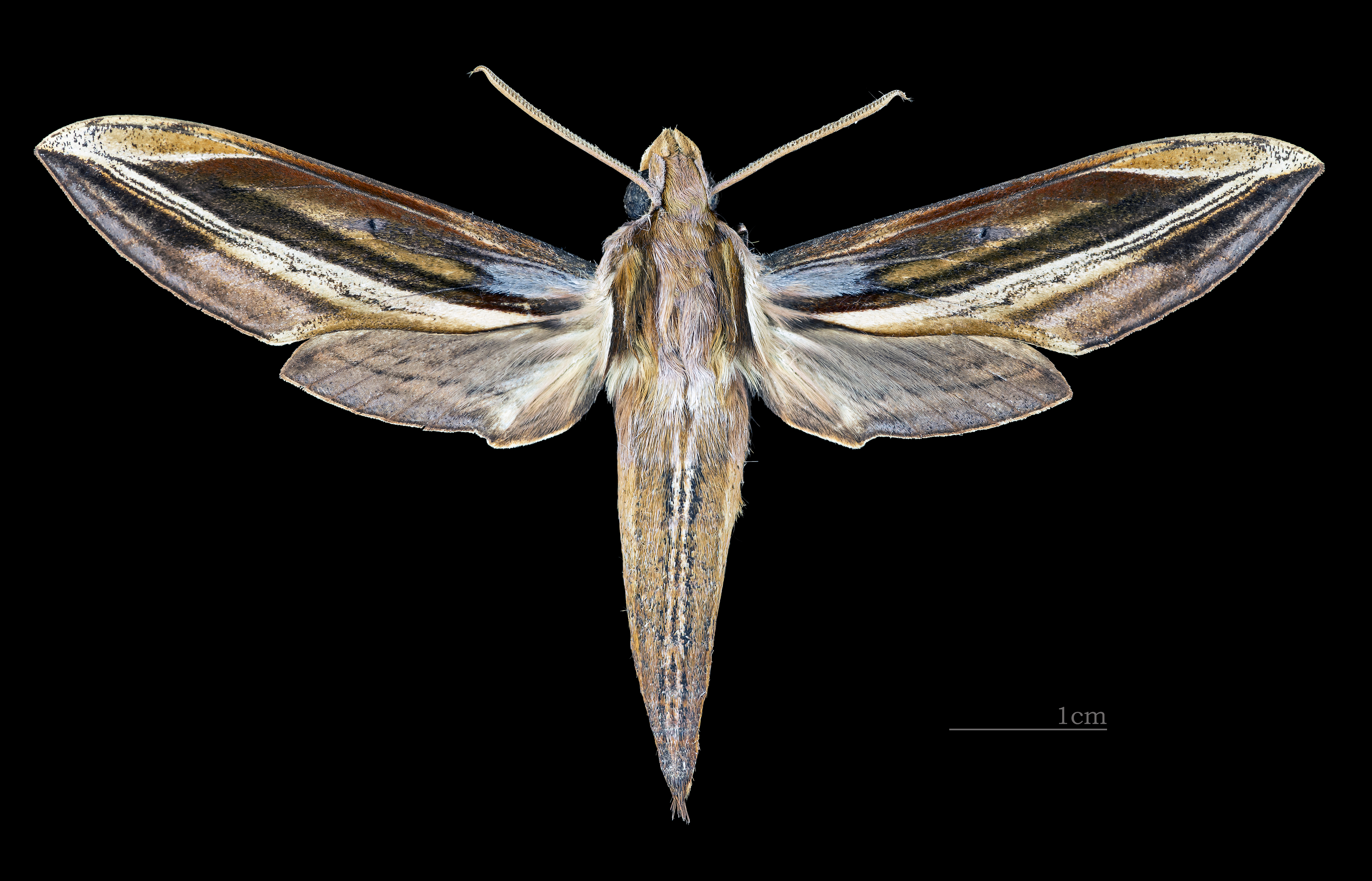 Xylophanes pyrrhus - Dorsal side